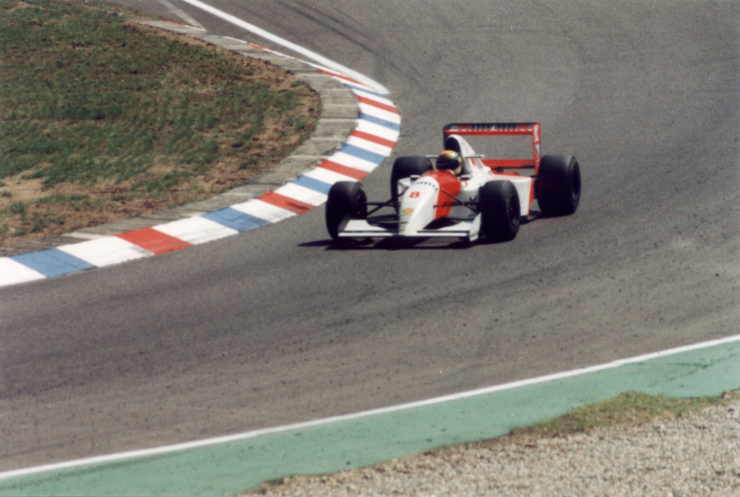 Ayrton Senna at Hockenheim GP 1993